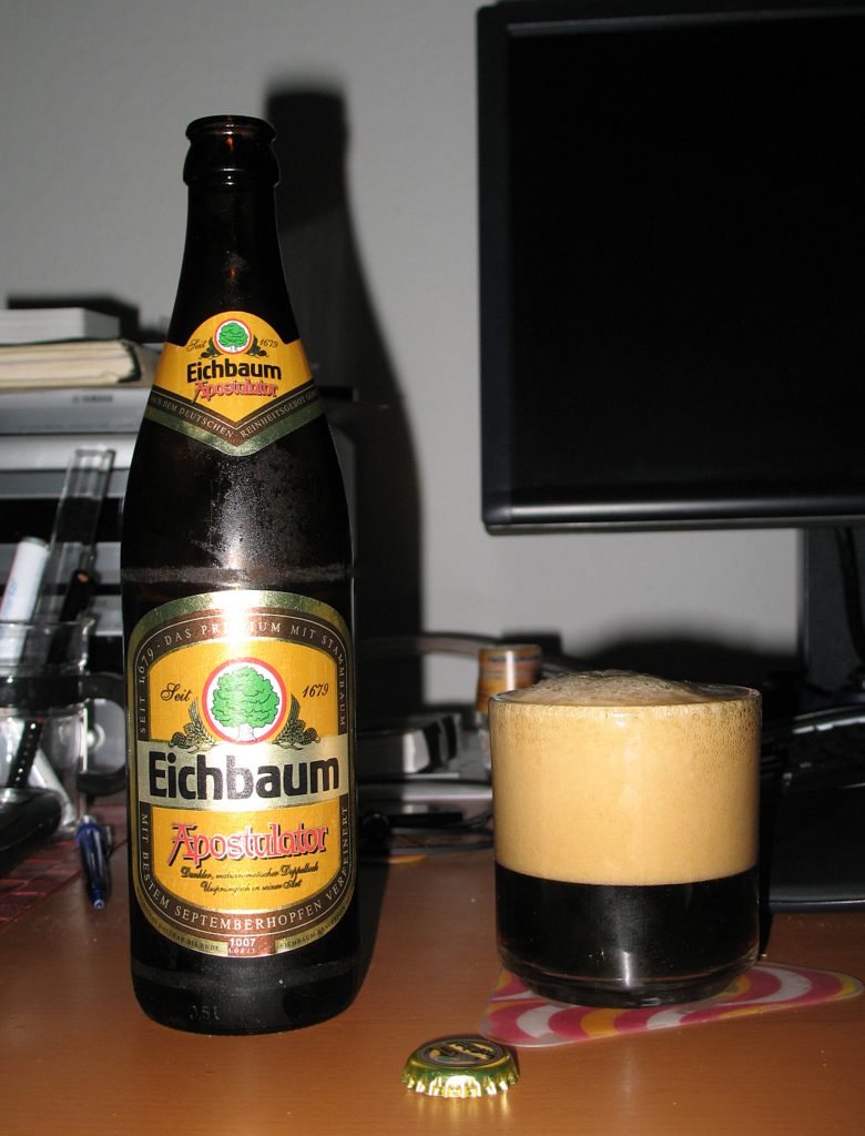 A bottle of Eichbaum dark beer “Apostulator”.